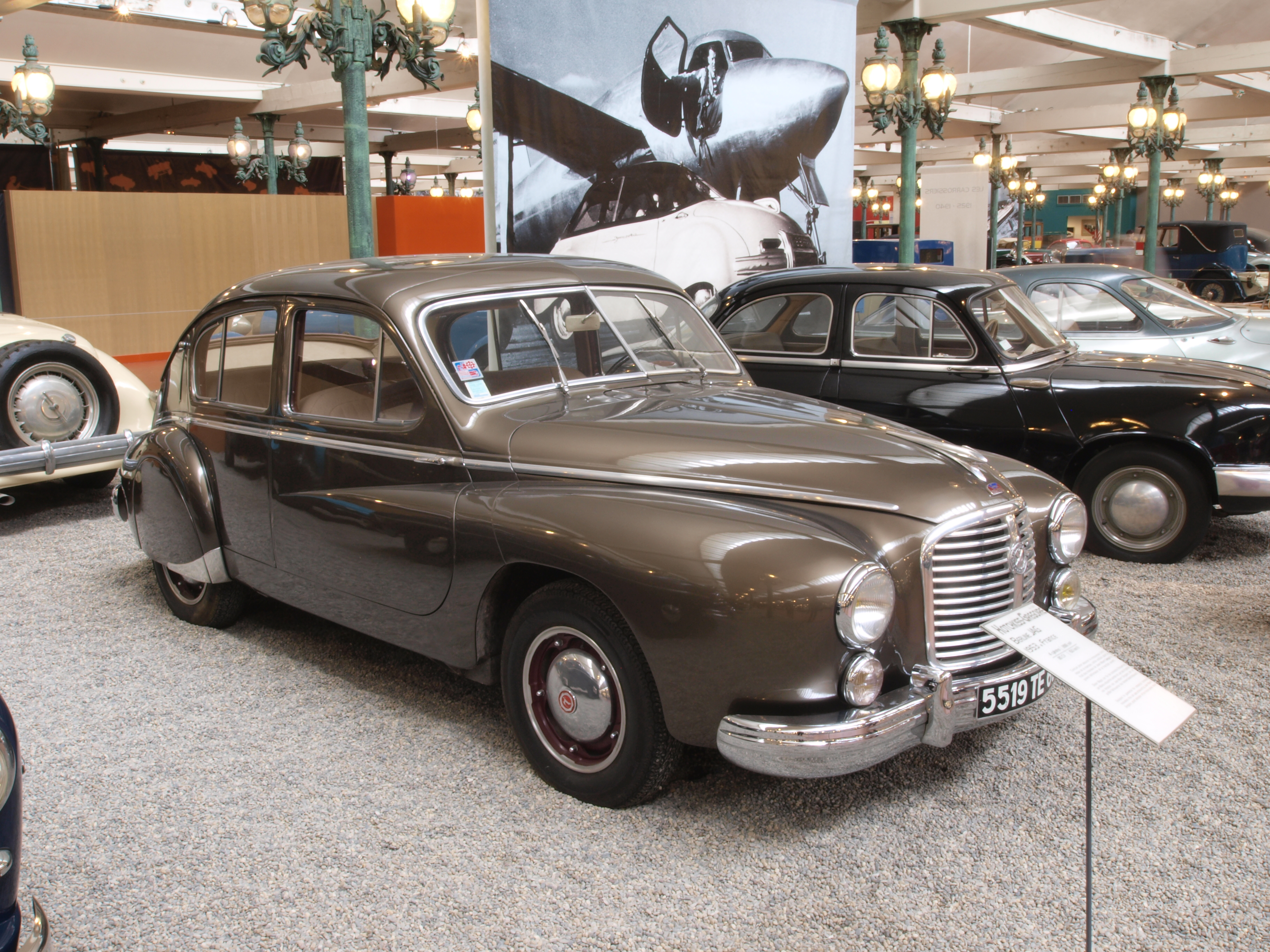 Photographed at the Cité de l’Automobile, France. OLYMPUS DIGITAL CAMERA